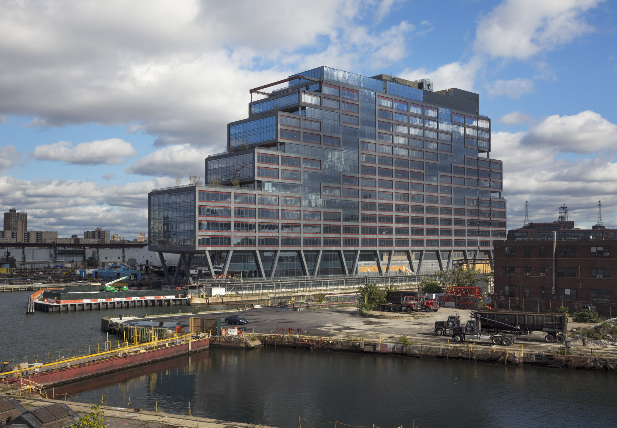 OHNY 18, Brooklyn Navy YardsSite: Brooklyn Navy Yard